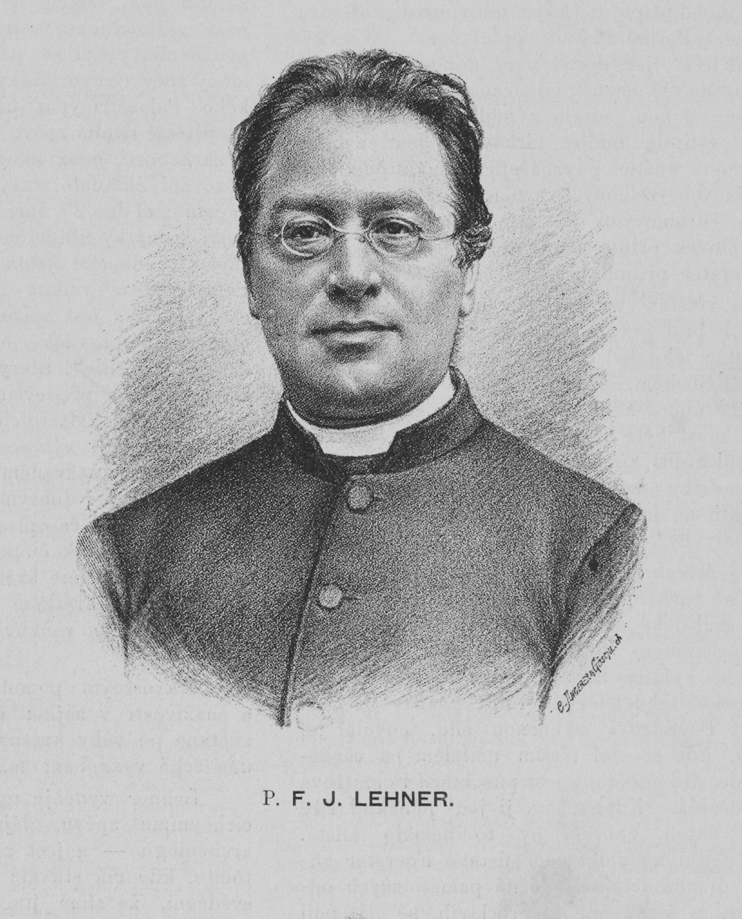 Ferdinand Josef Lehner (1837-1914), Czech priest and Art historian